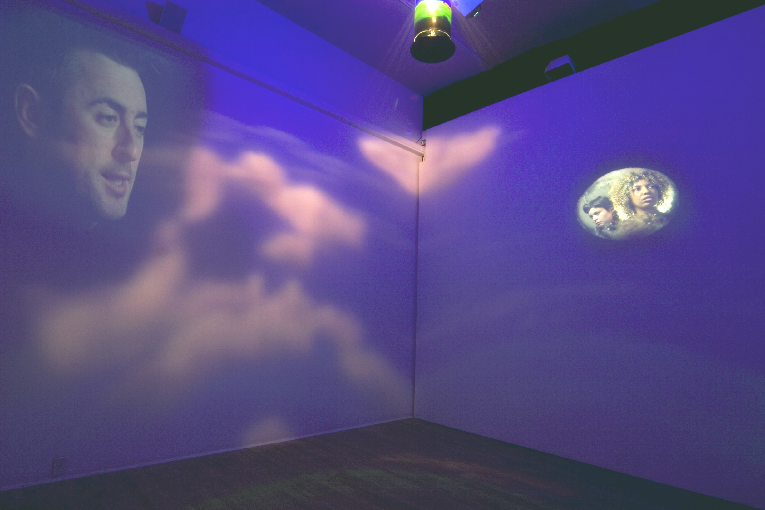 Alan Cumming as the Gargantuan Head in Sliphost. Still from "Sliphost".